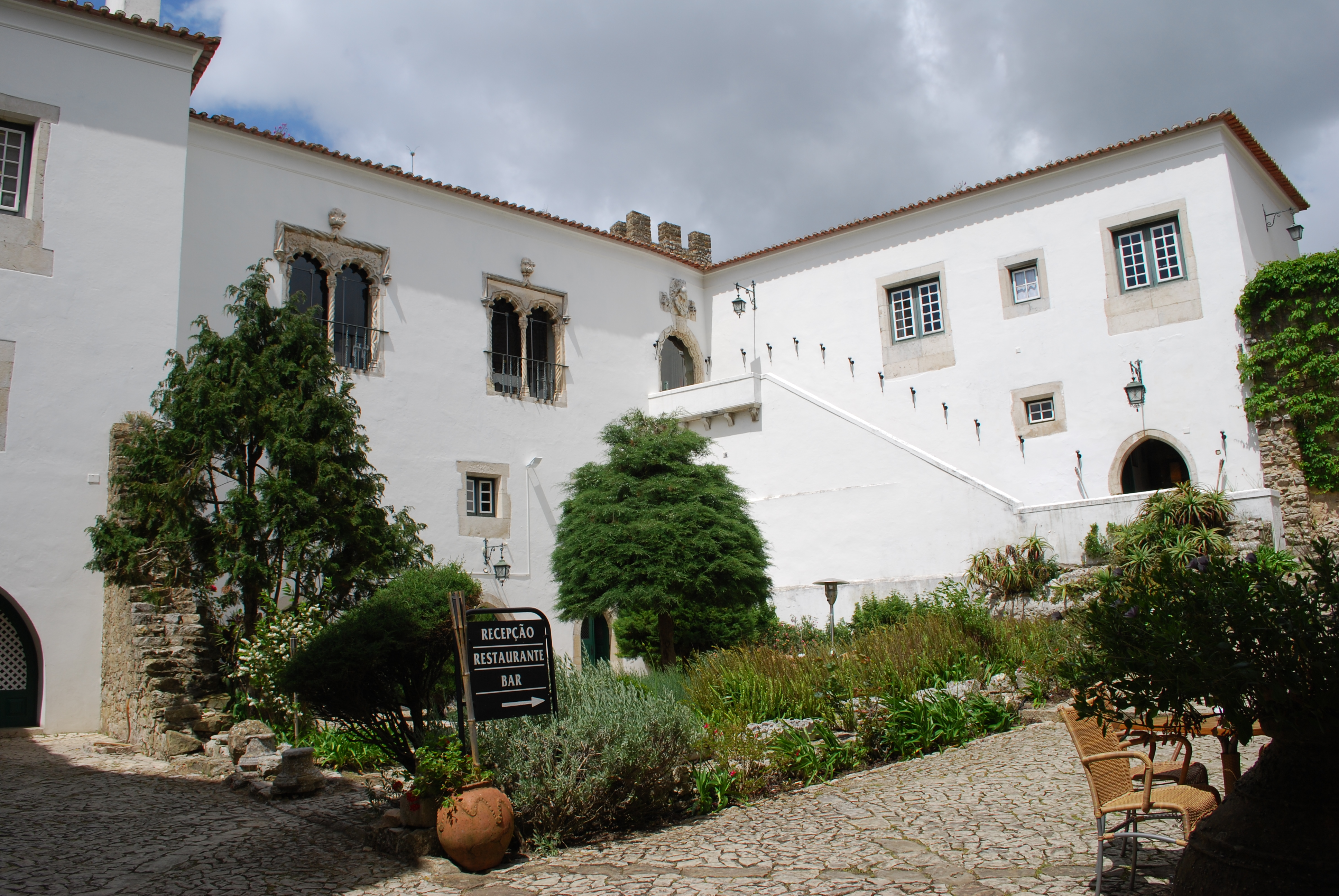 This file was uploaded for Wiki Loves Monuments in Portugal with the unique identifier 70427.